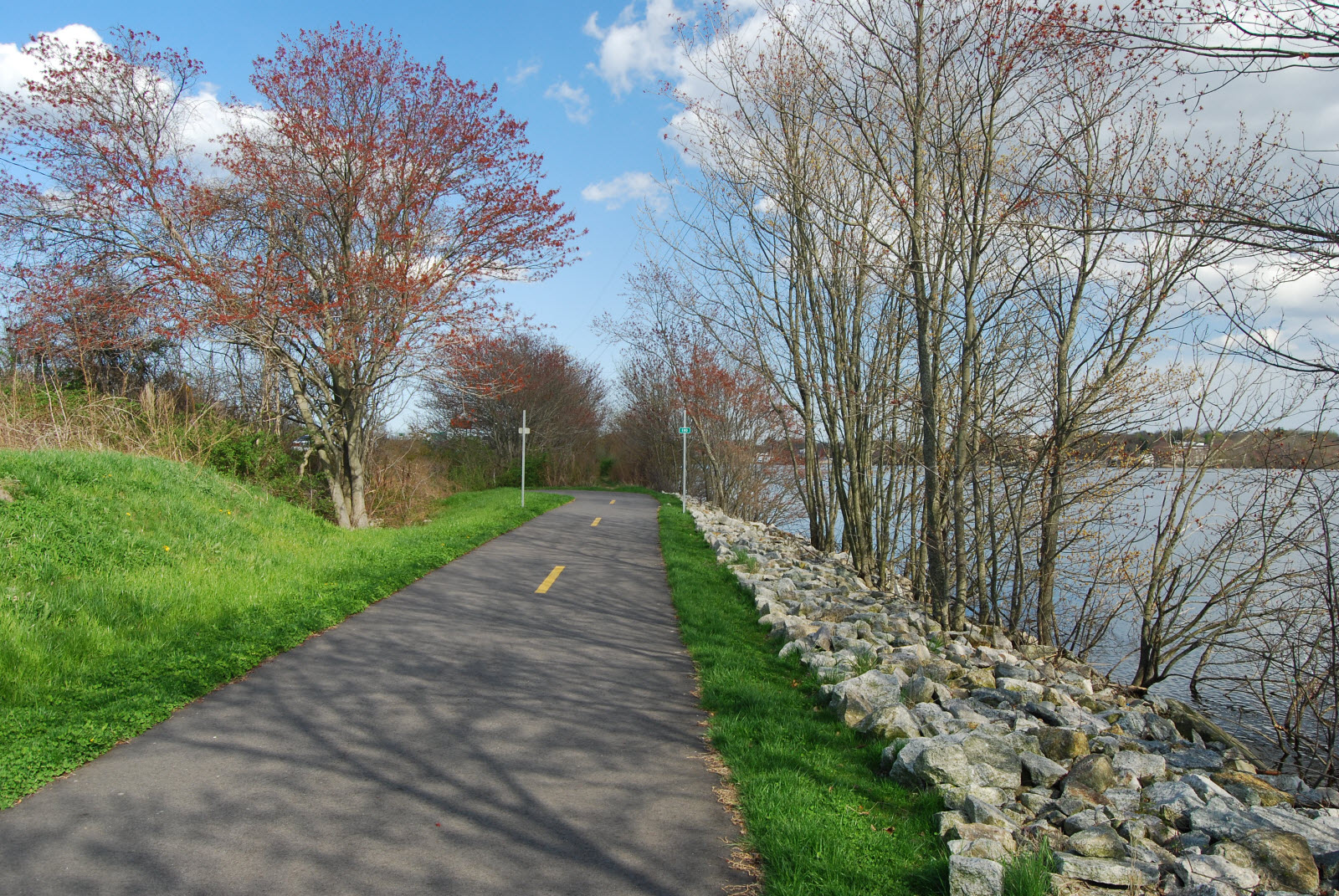 View of bike path along South Watuppa Pond, Fall River, Massachusetts near terminus at Westport town line. The bike path is constucted over the former Fall River and New Bedford Railroad right-of-way (later part of the Old Colony Railroad system).